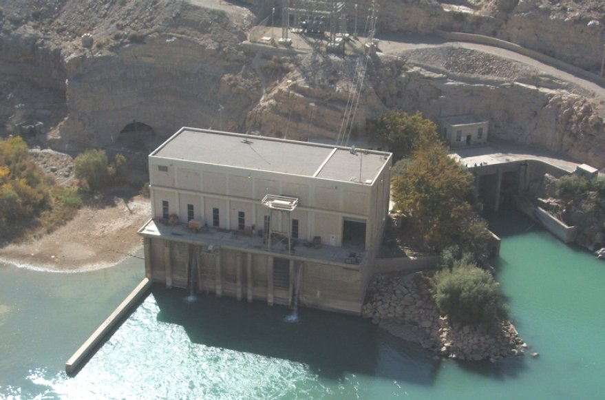 The Kajakai Dam Powerhouse 2004 source: USAID URL: (Internet Archive Link)